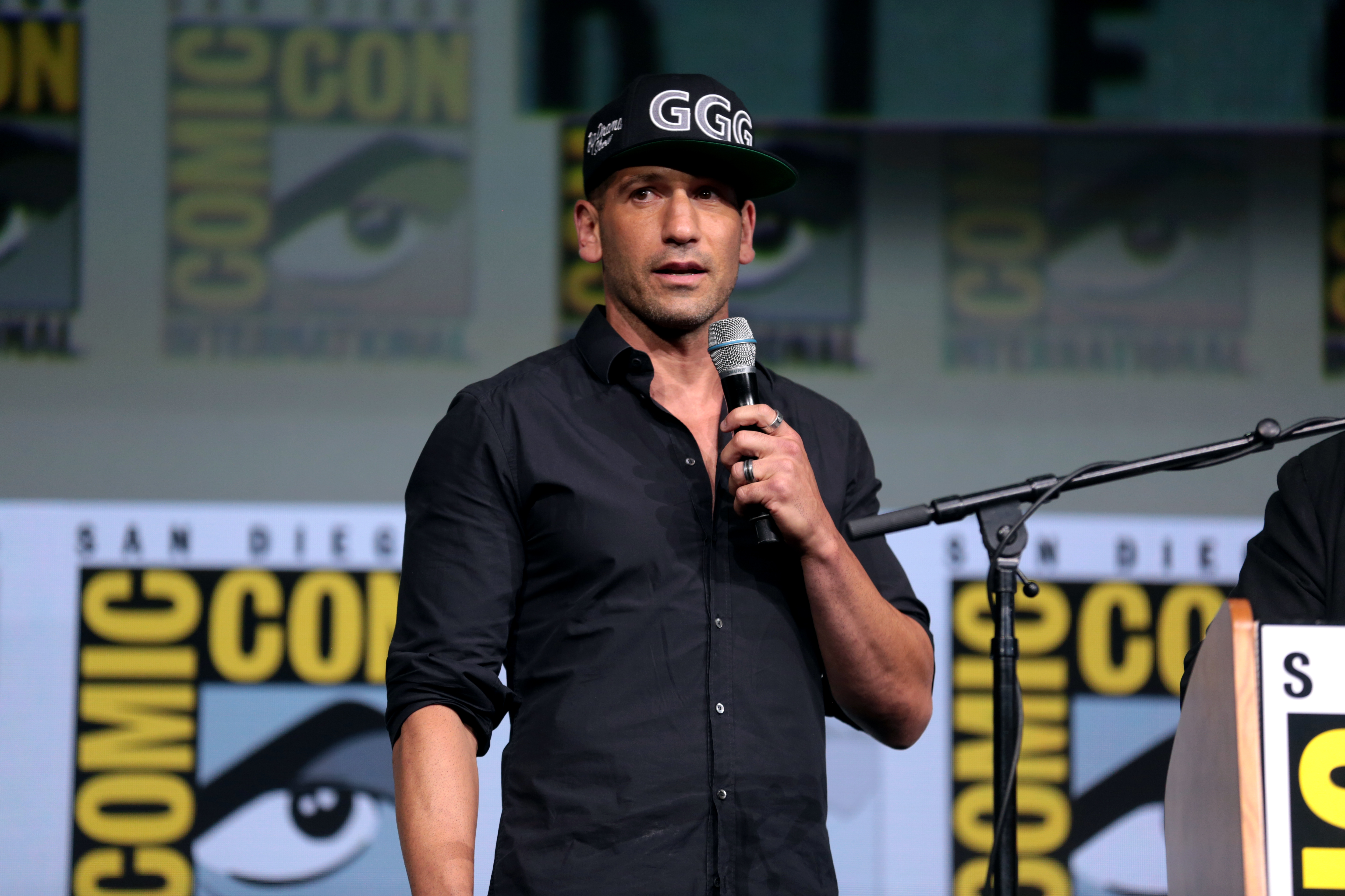 Jon Bernthal speaking at the 2017 San Diego Comic Con International, for "Marvel's The Punisher", at the San Diego Convention Center in San Diego, California.